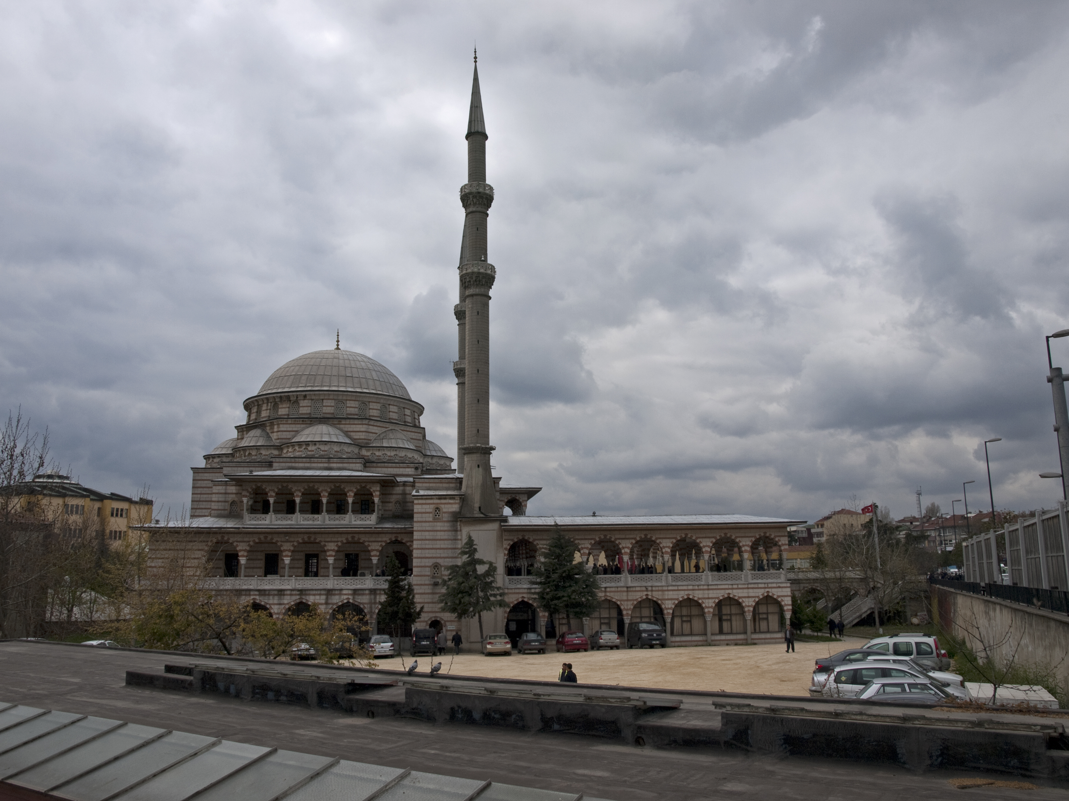 Theology (Divinities) Faculty of the Marmara University, Uskudar